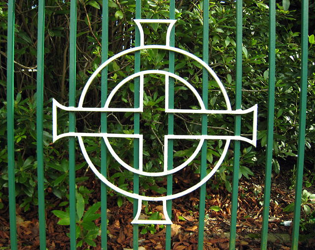 Gate, Irish Football Association. Gate on the driveway of the Irish Football Association 1189134. One of a pair which features the outline of the IFA logo - for a more complete image.